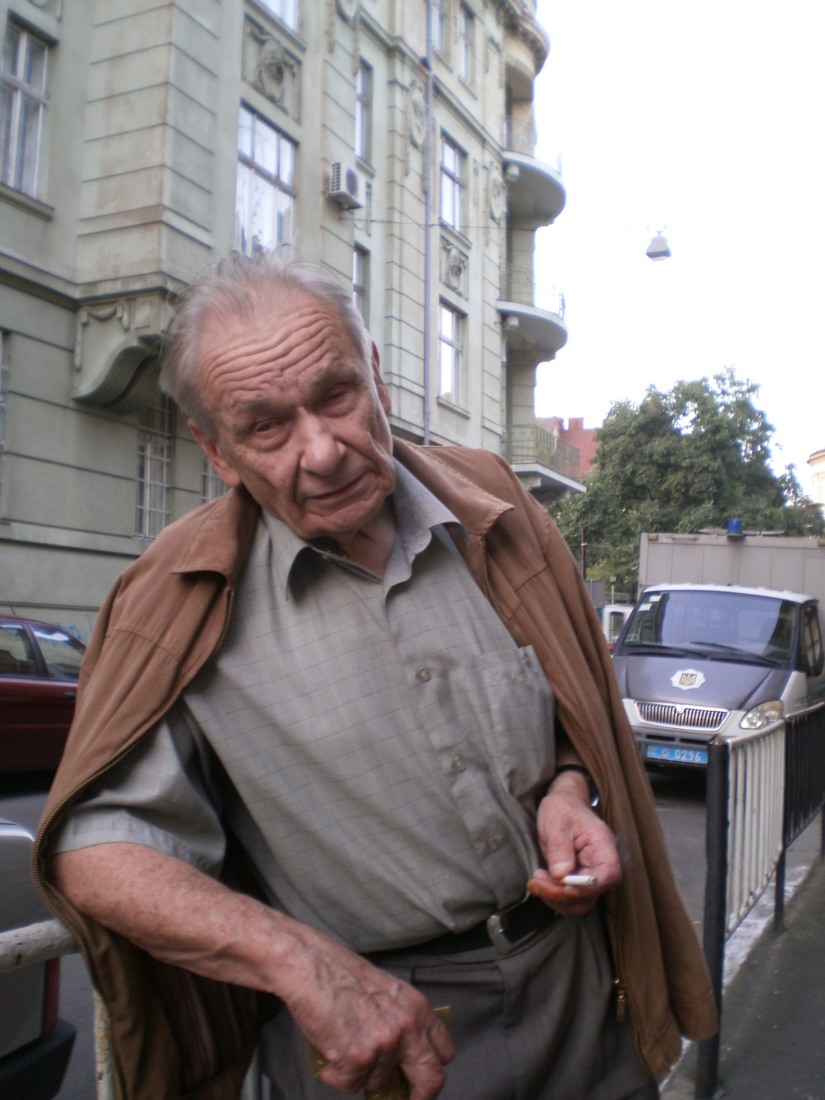 Yuriy Shukhevych near the "Prison on Lontskoho Street" museum, 12th September 2014